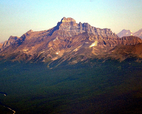 Mount Hector seen from Fairview Mountain. Banff National Park